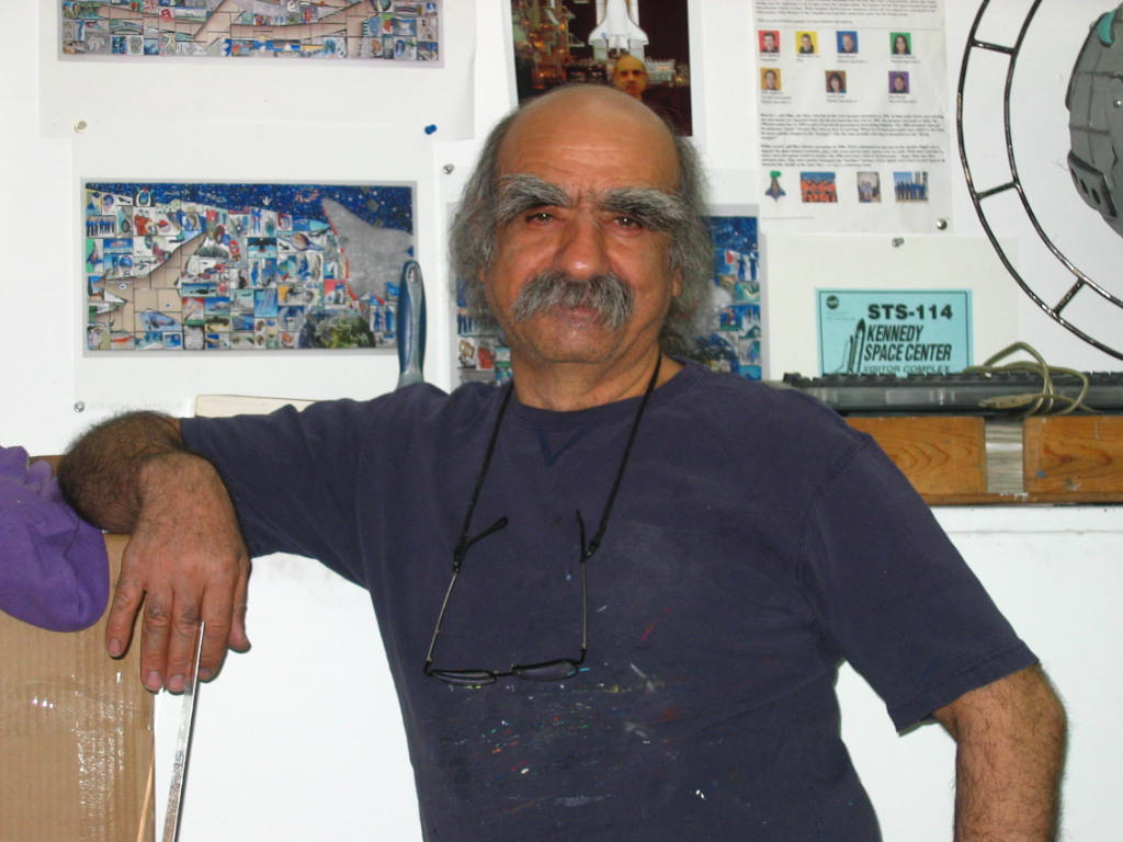 Portrait of the artist